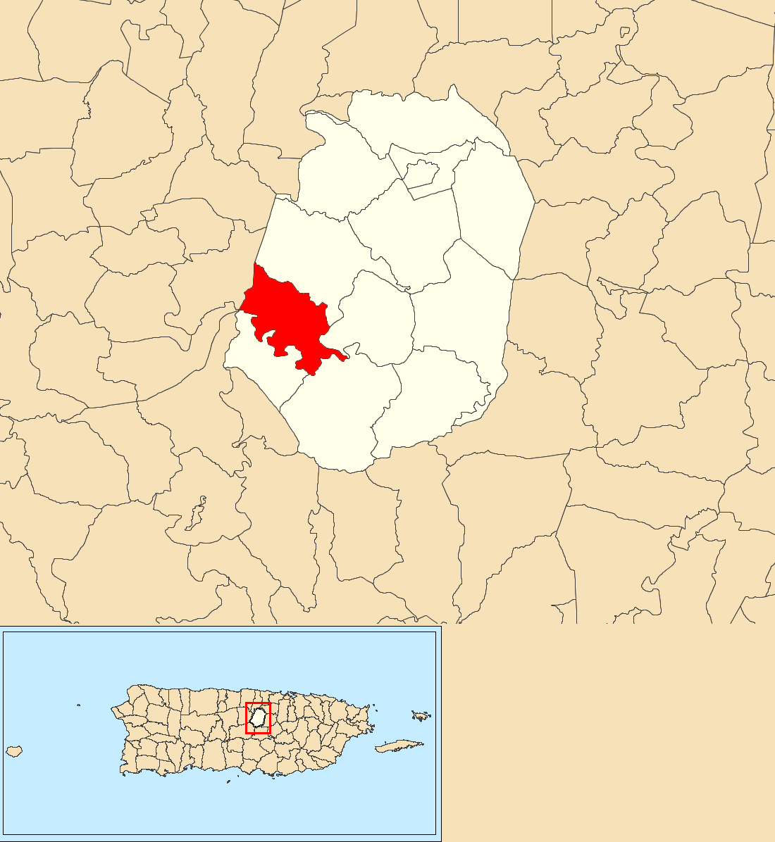 Cuchillas, Corozal, Puerto Rico locator map